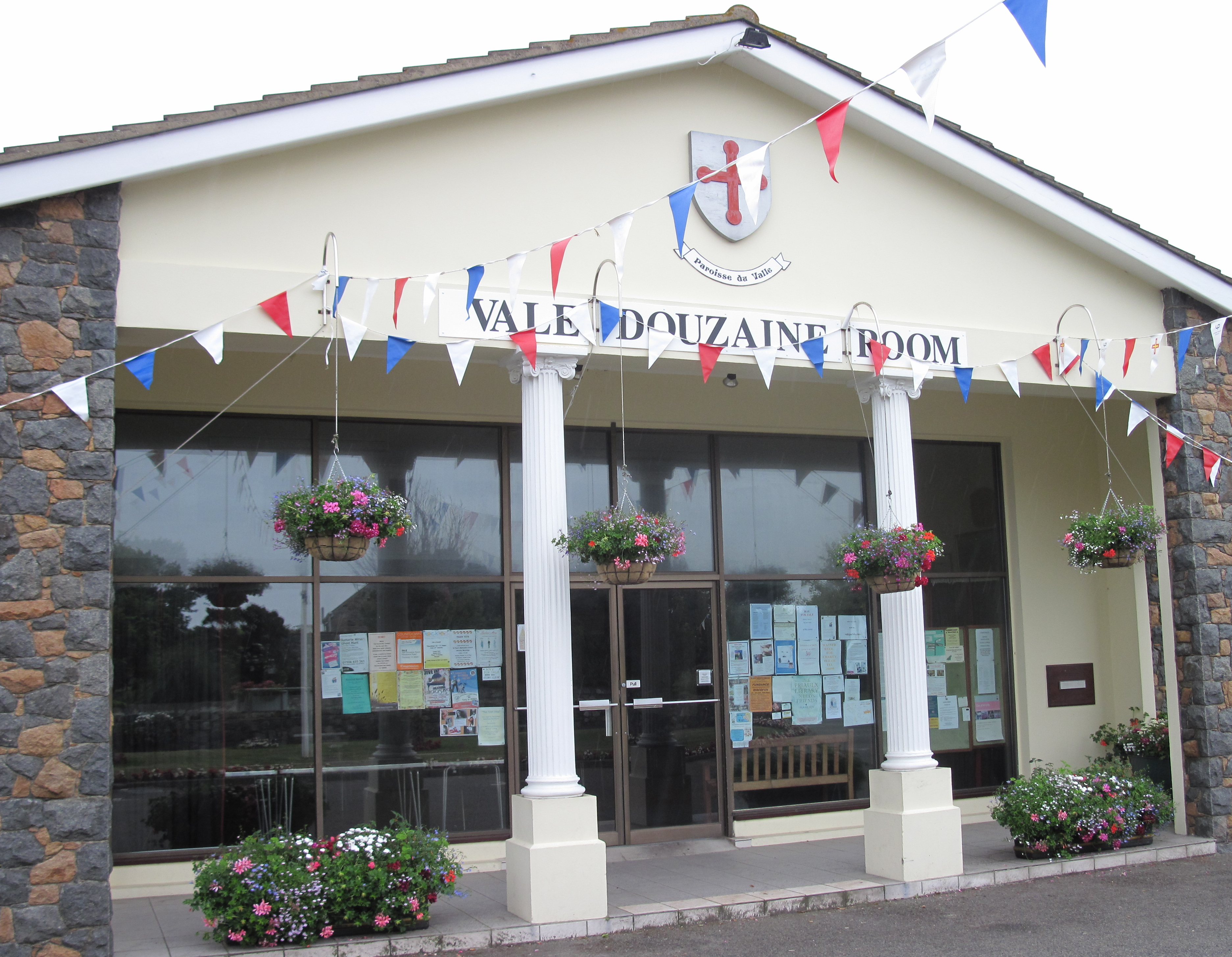 Guernsey, 2 July 2010: Douzaine room